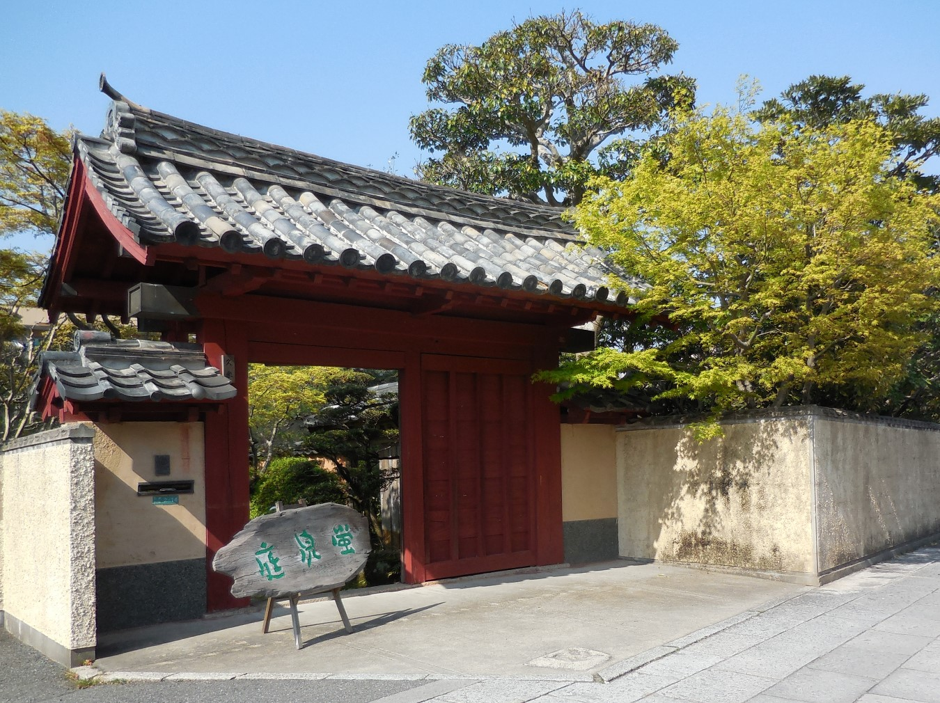 Old Samurai gate at Chofu